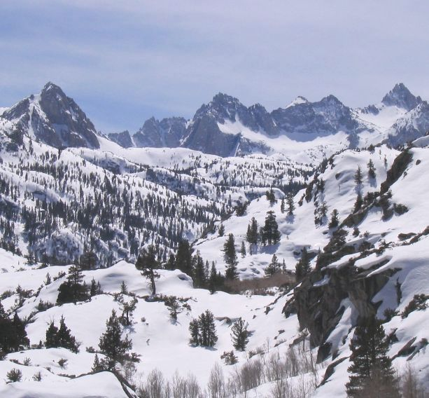 Peaks around the southwestern edge of Sabrina Basin, Sierra Nevada, California